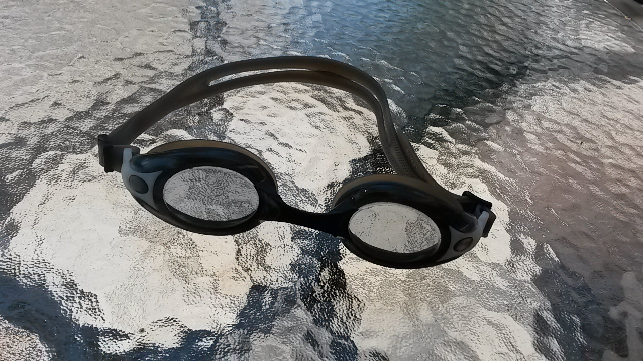 SYZE NOTI